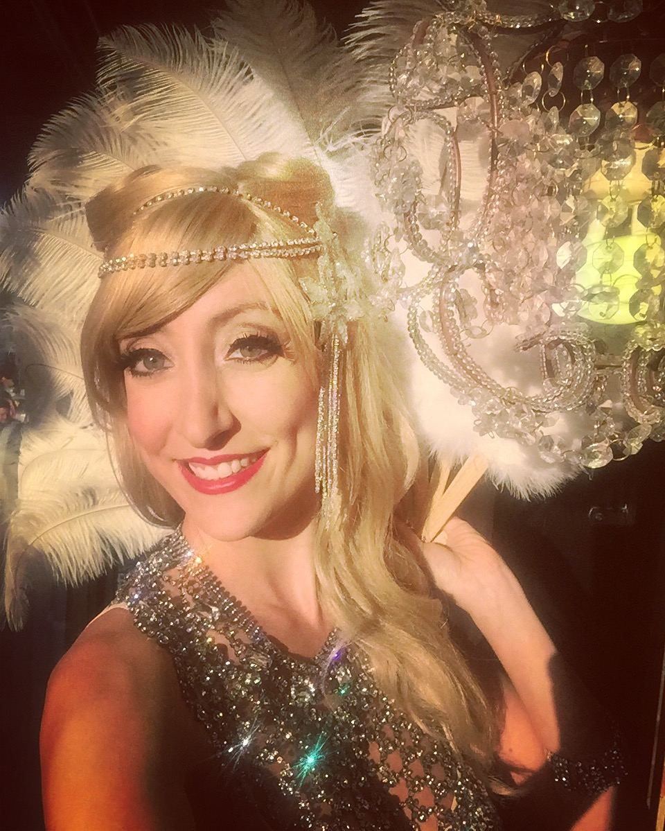 Trixie Minx, Burlesque Dancer, New Orleans Burlesque, Feather Fan, Producer, Entertainer, Fleur De Tease